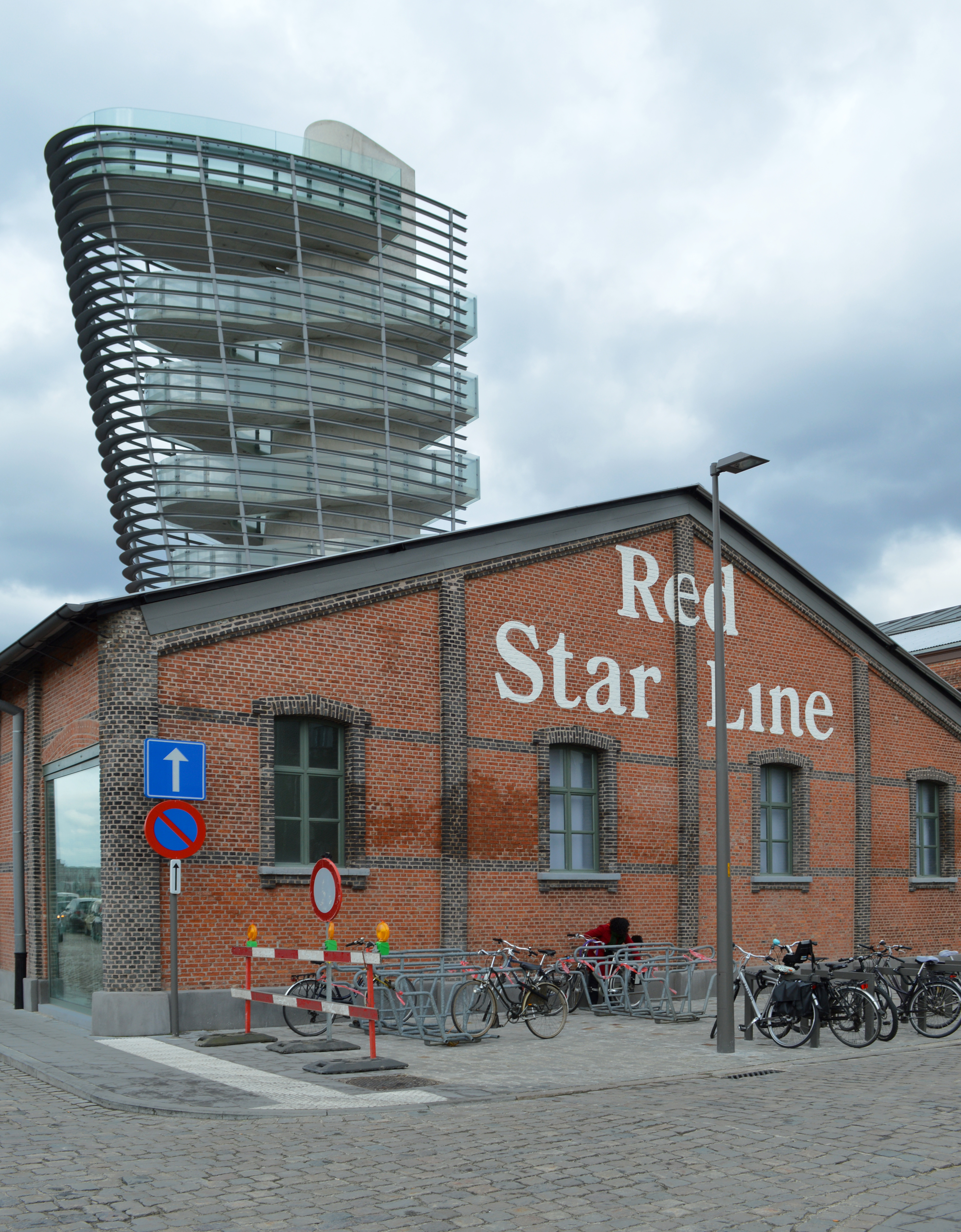 Corner of the Red Star Line Museum, with the tower, in Antwerp, Belgium.